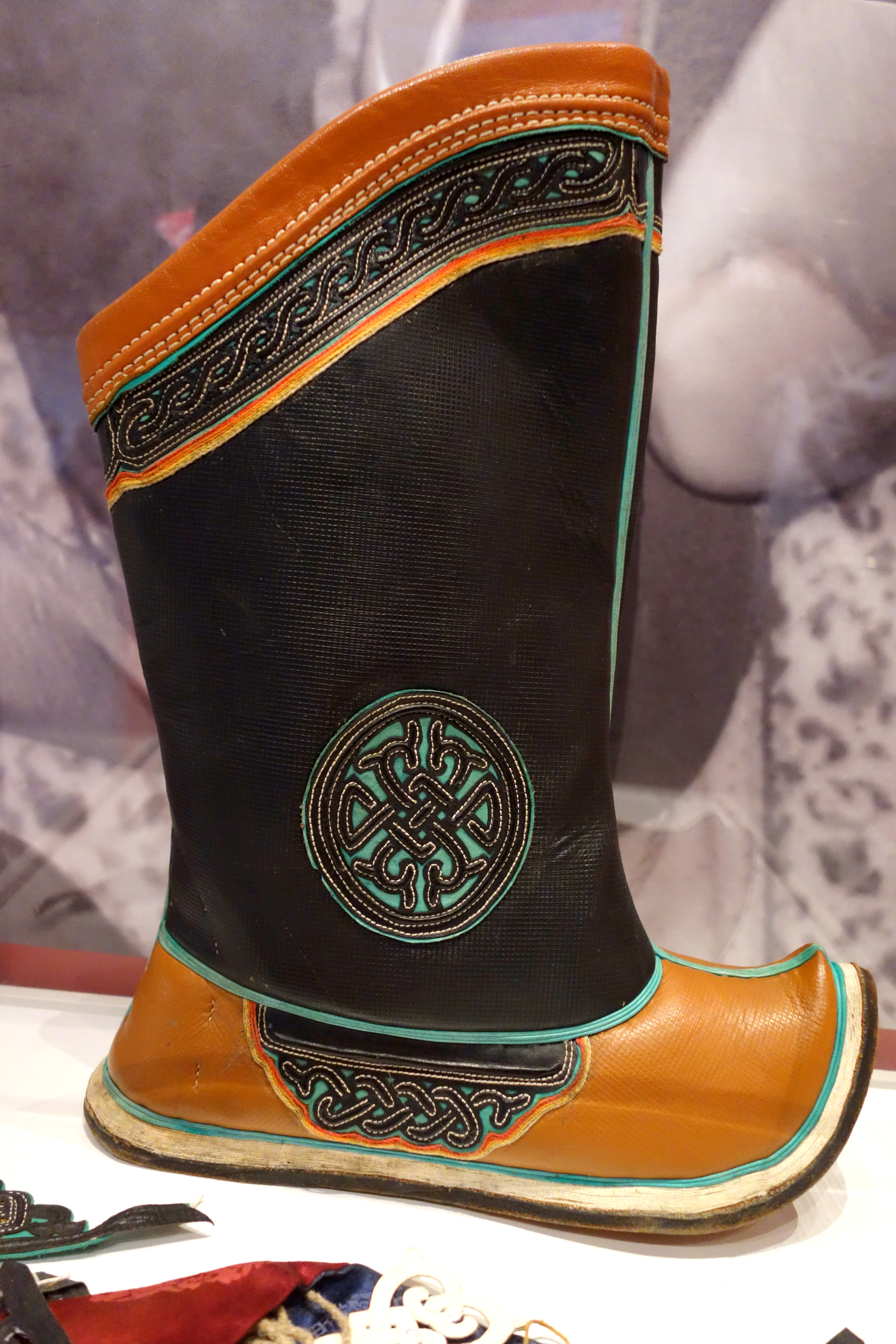 Exhibit in the Bata Shoe Museum, Toronto, Ontario, Canada. The museum permitted photography without restriction.